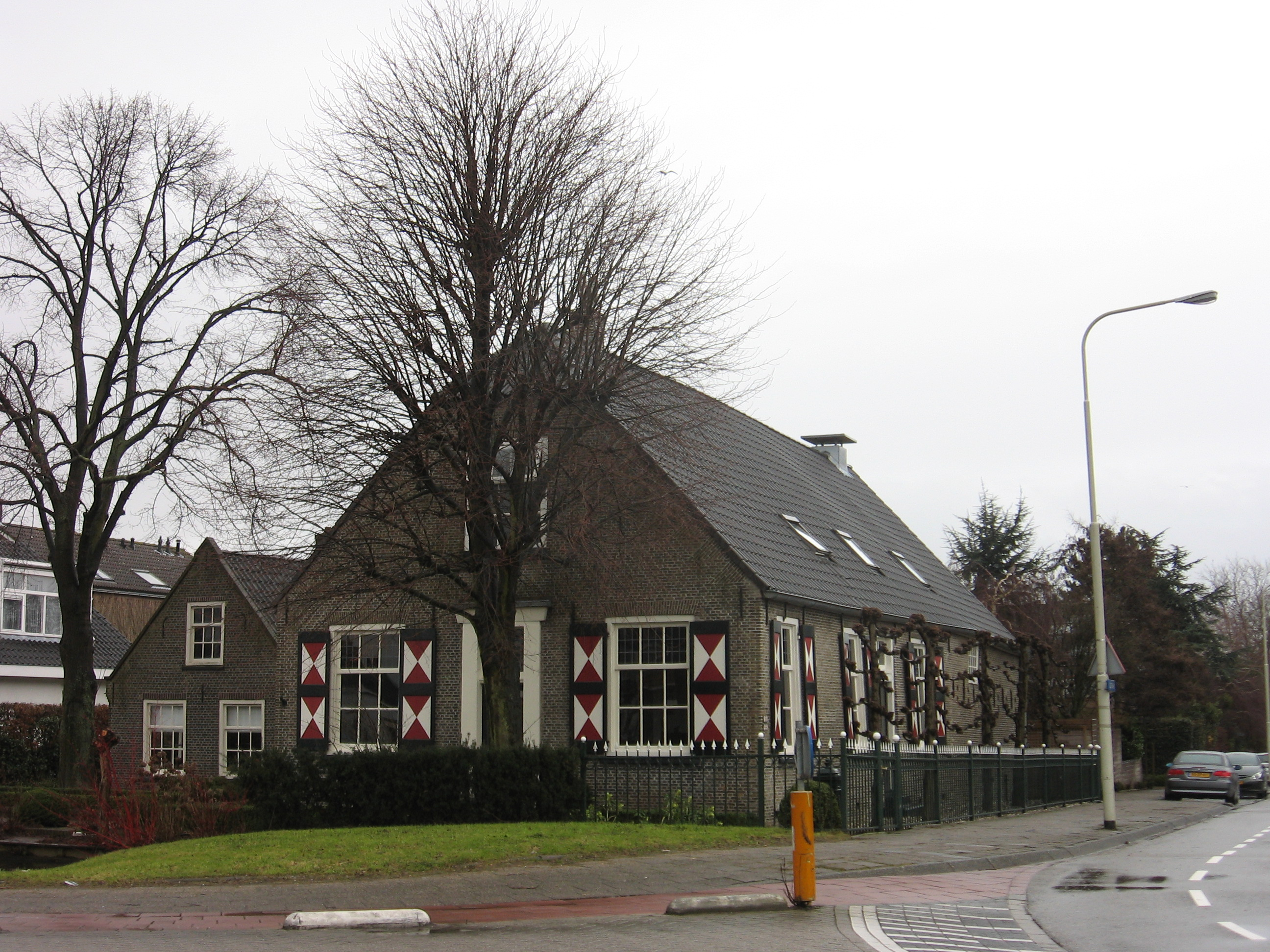 Rijksmonument 9628